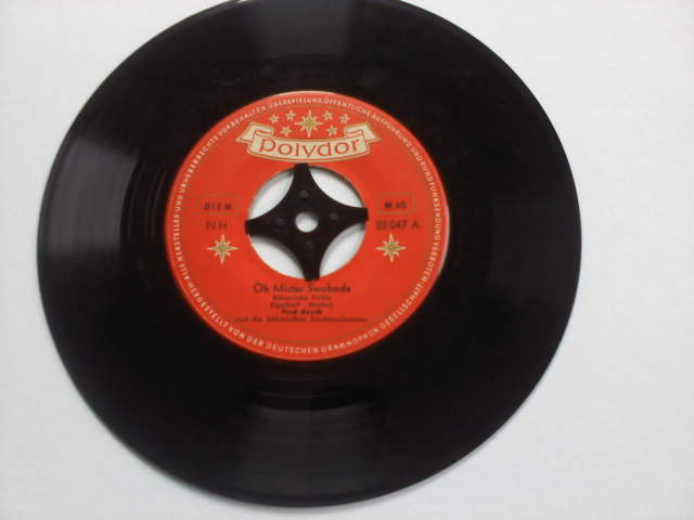 Single Oh, Mister Swoboda from Fred Rauch, 1955